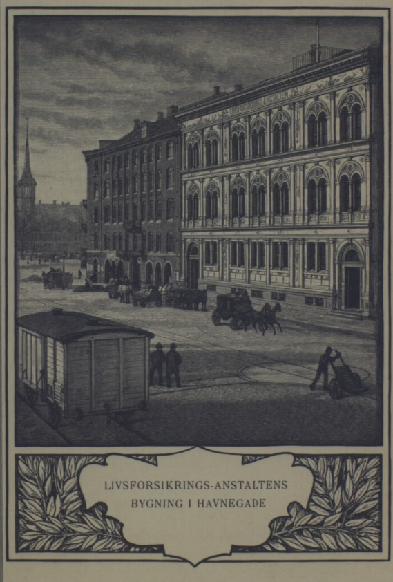 Livforsikrings-Anstalten's building in Havnegade in Copenhagen, Denmark